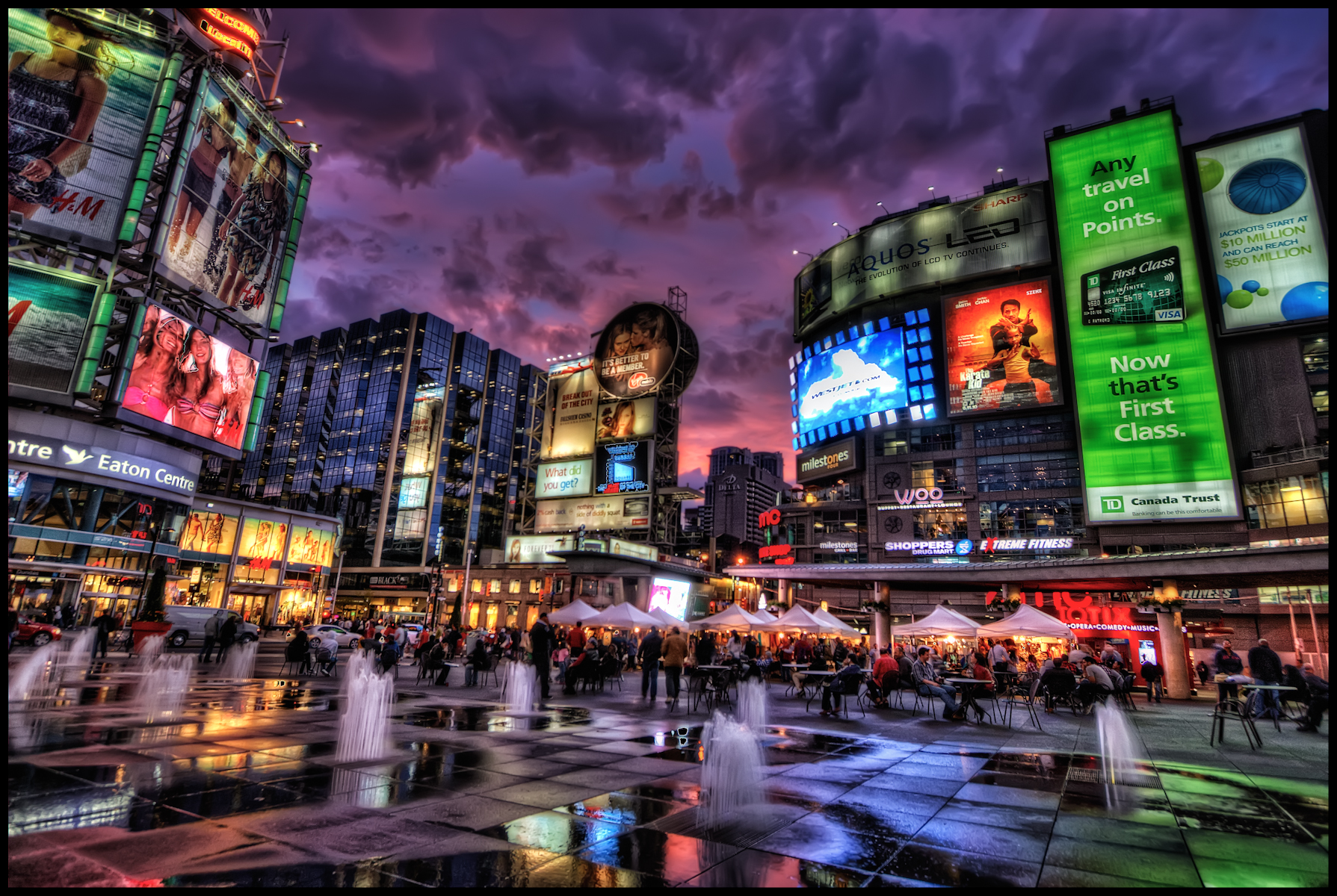 Toronto Yonge-Dundas Square